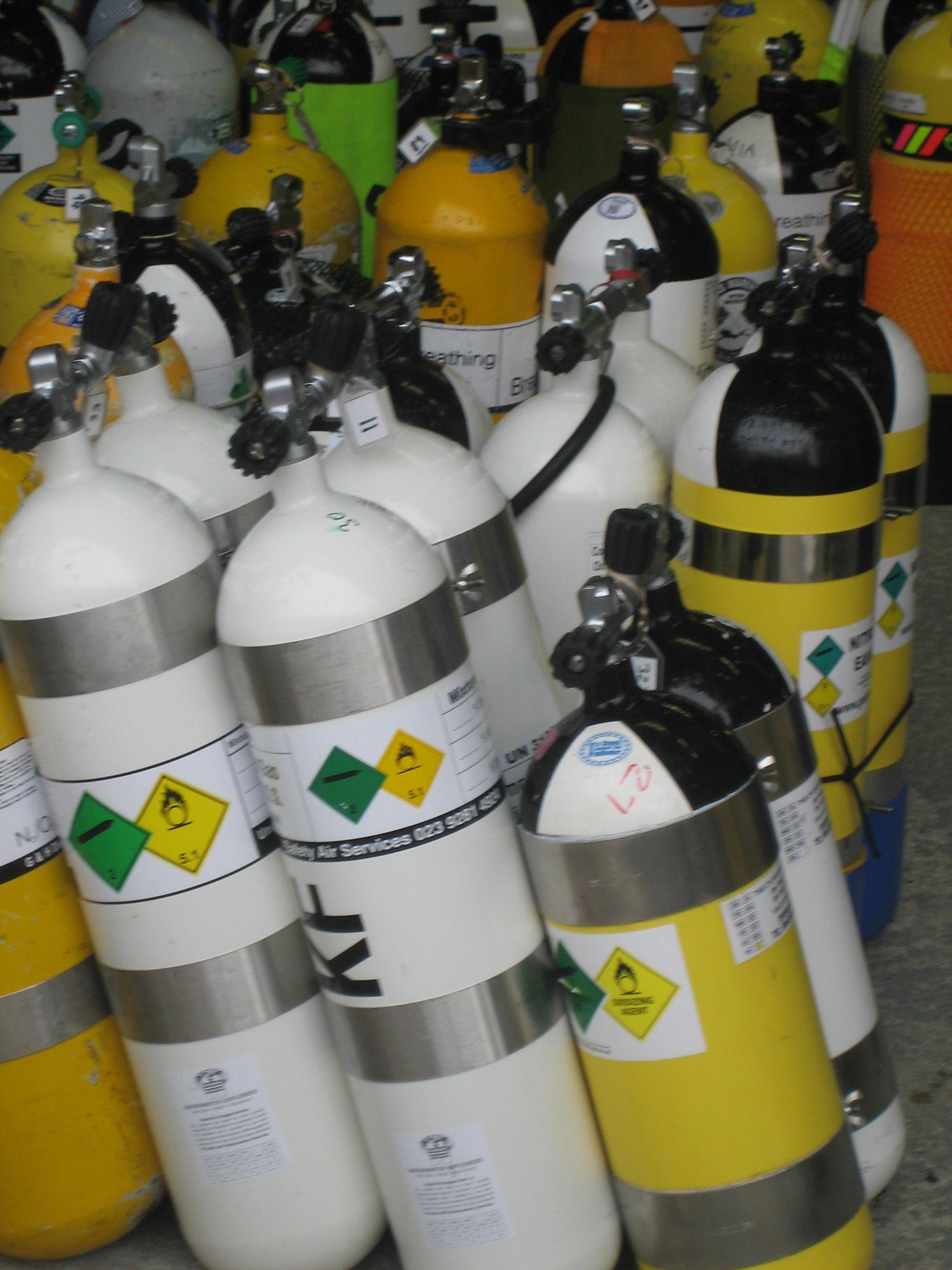 Diving cylinders at a diving air compressor station at Mount Batten